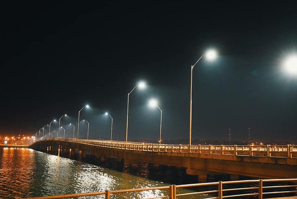 Mbói Ka'e Bridge in Encarnación, Paraguay. It connects two neighborhoods.